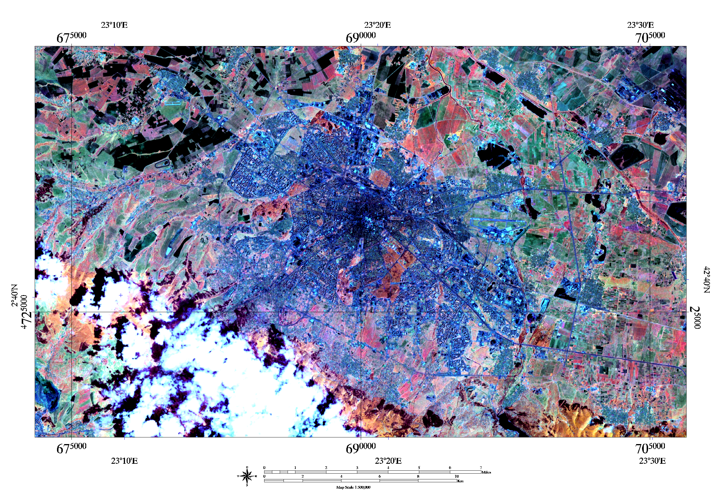 Landsat 7 ETM+ scene, 452 combination, pnachromatic sharpened